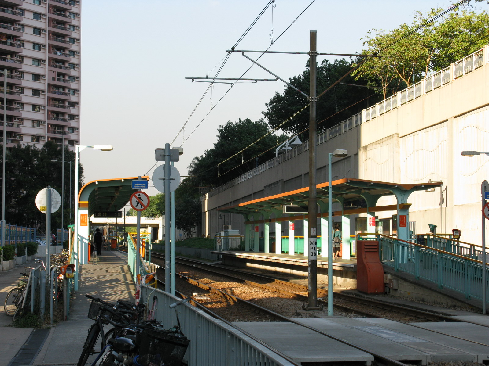 輕鐵 澤豐站 Affluence Stop, Light Rail